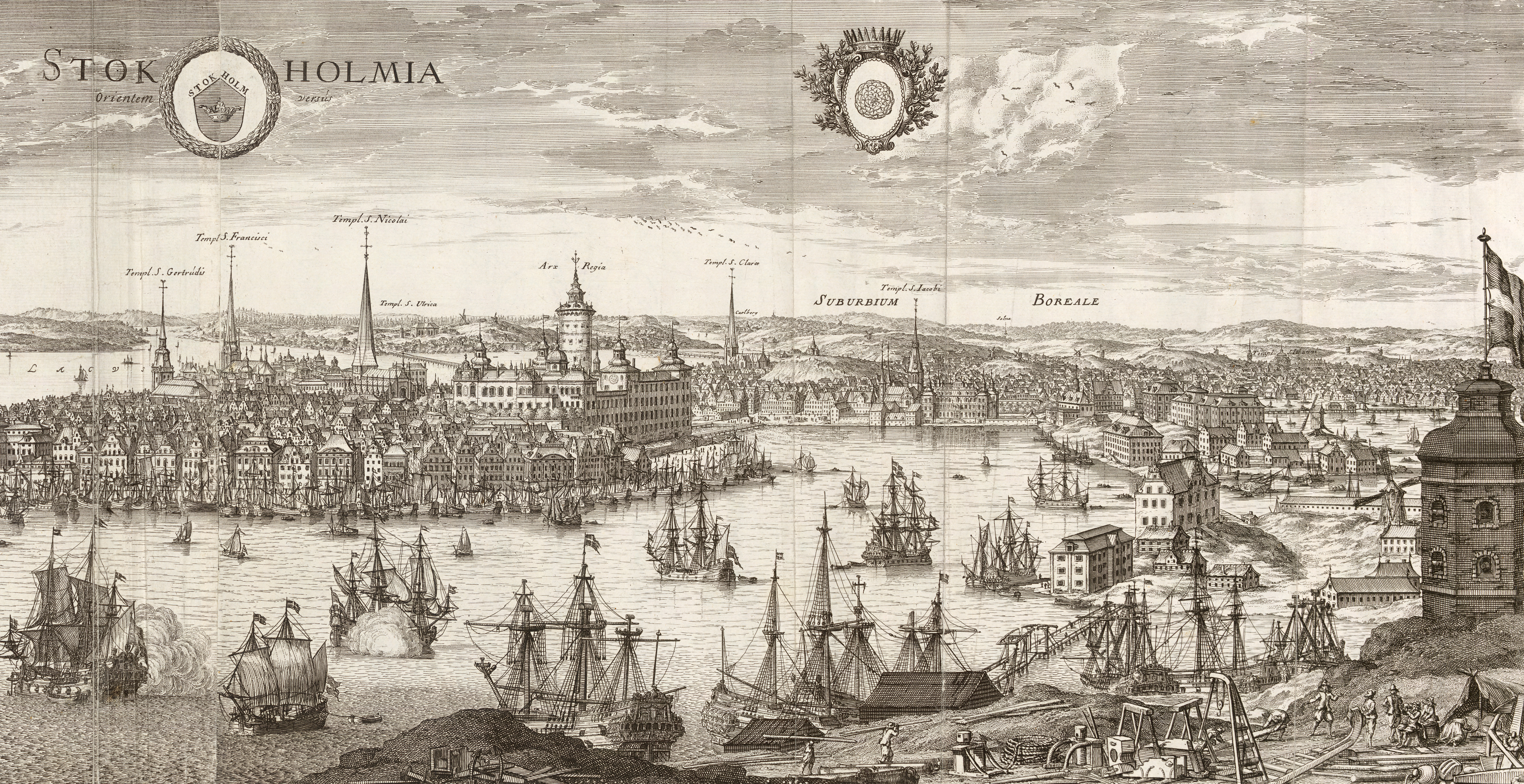 Stockholm seen from the east from Suecia antiqua et hodierna.